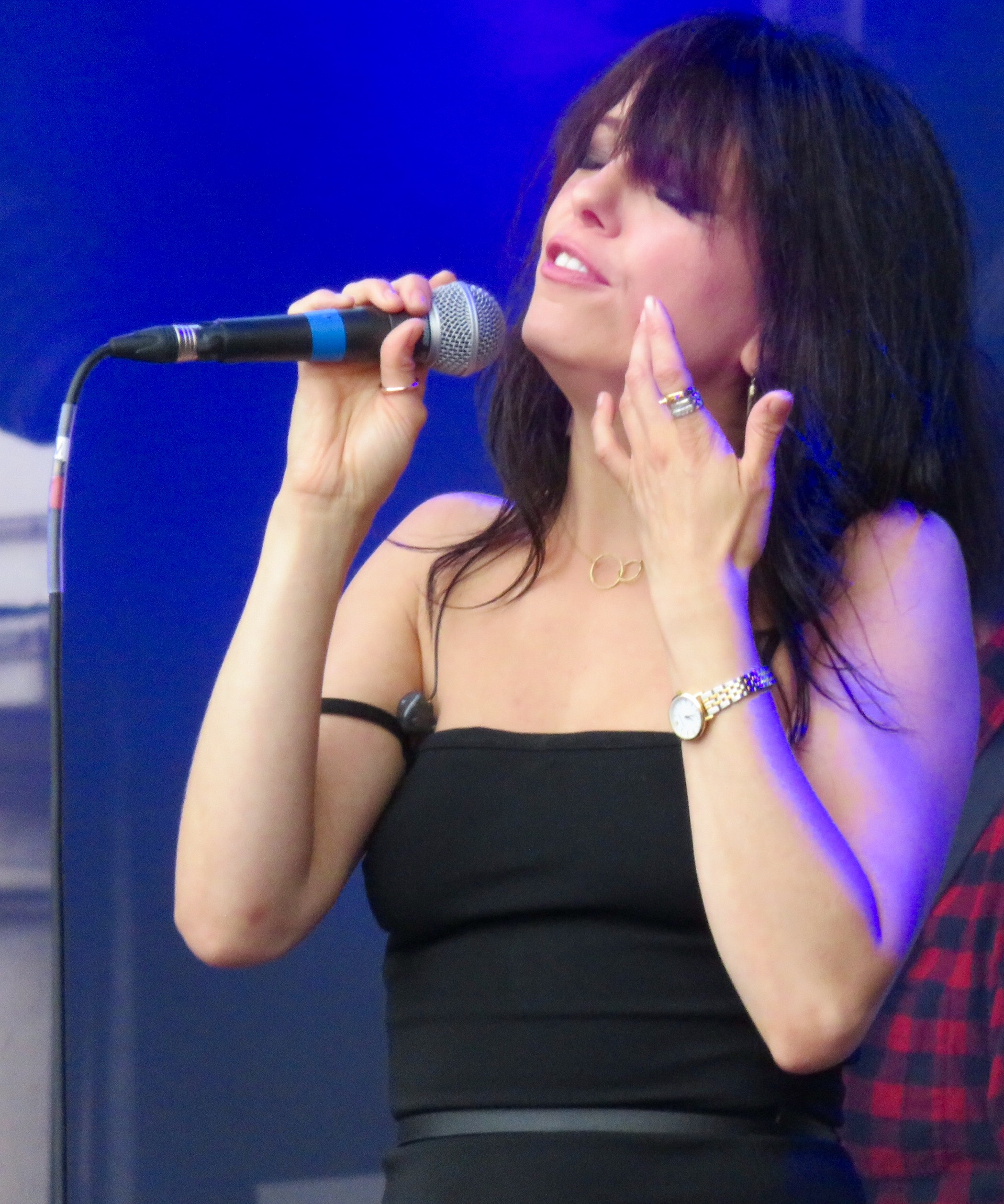 Imelda May at Live at Chelsea at the Royal Hospital Chelsea supporting Jeff Beck.